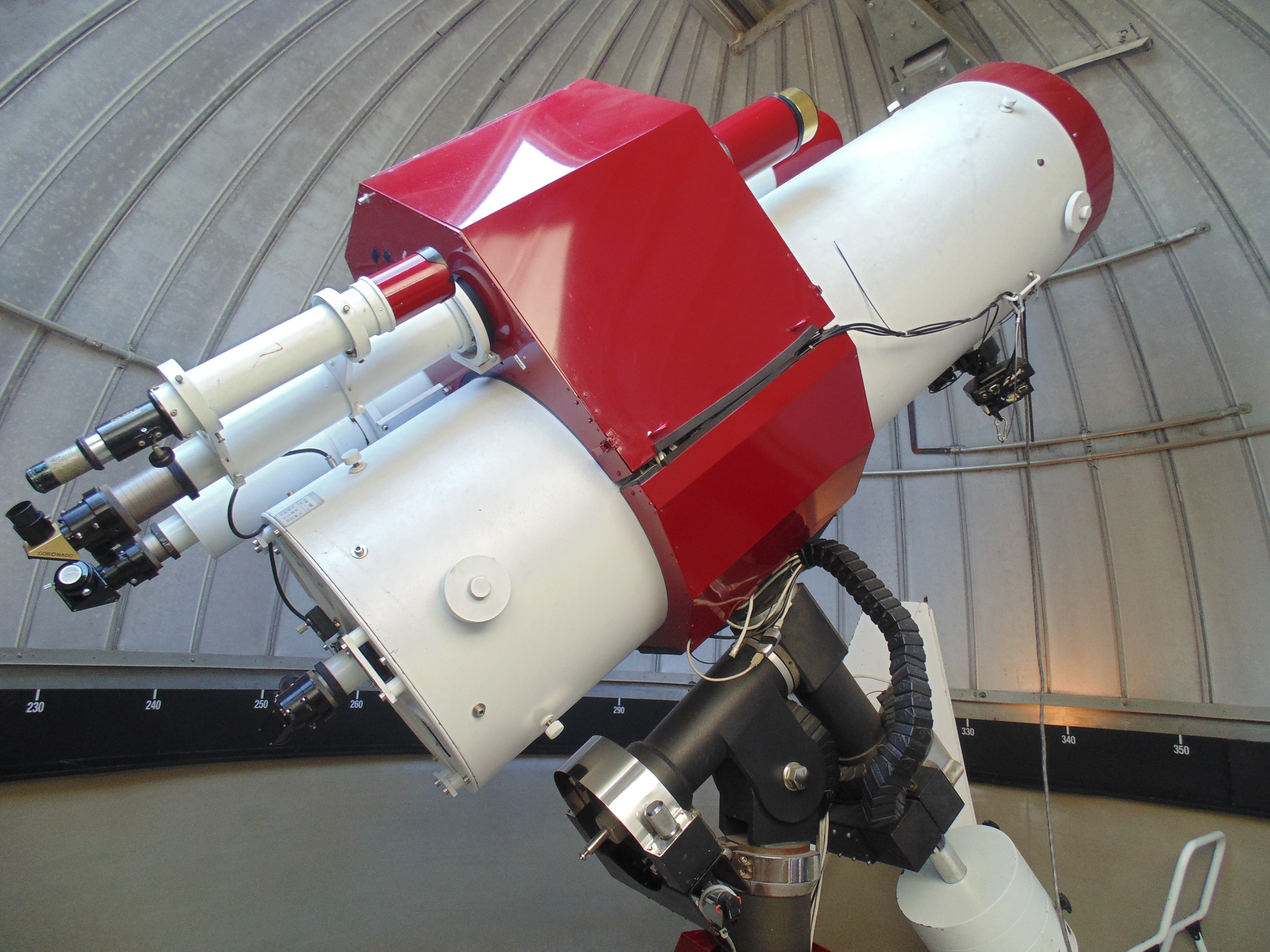 The Agrupació Astronòmica de Sabadell telescope.